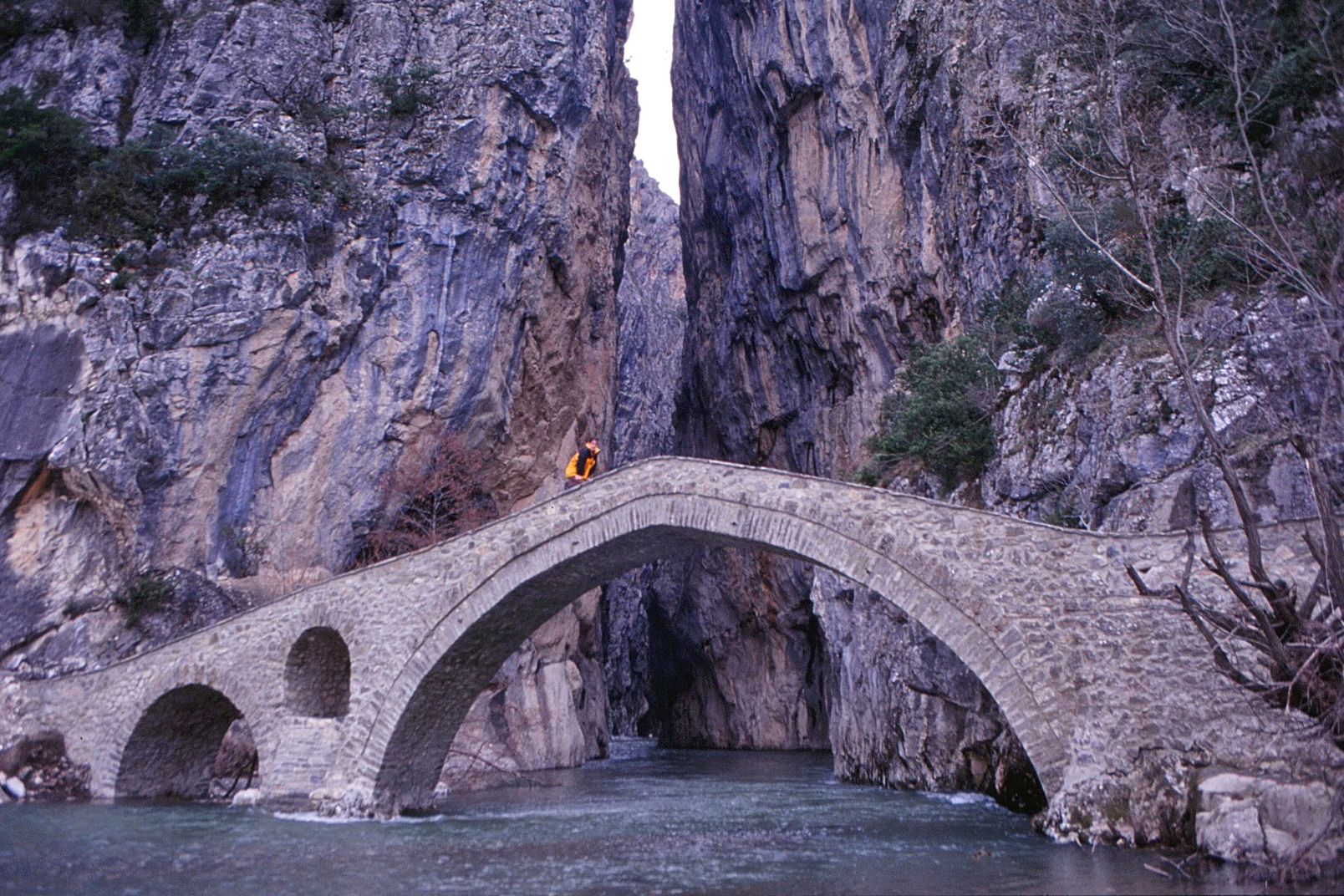 This is a photography of Natura 2000 protected area with ID GR1310003